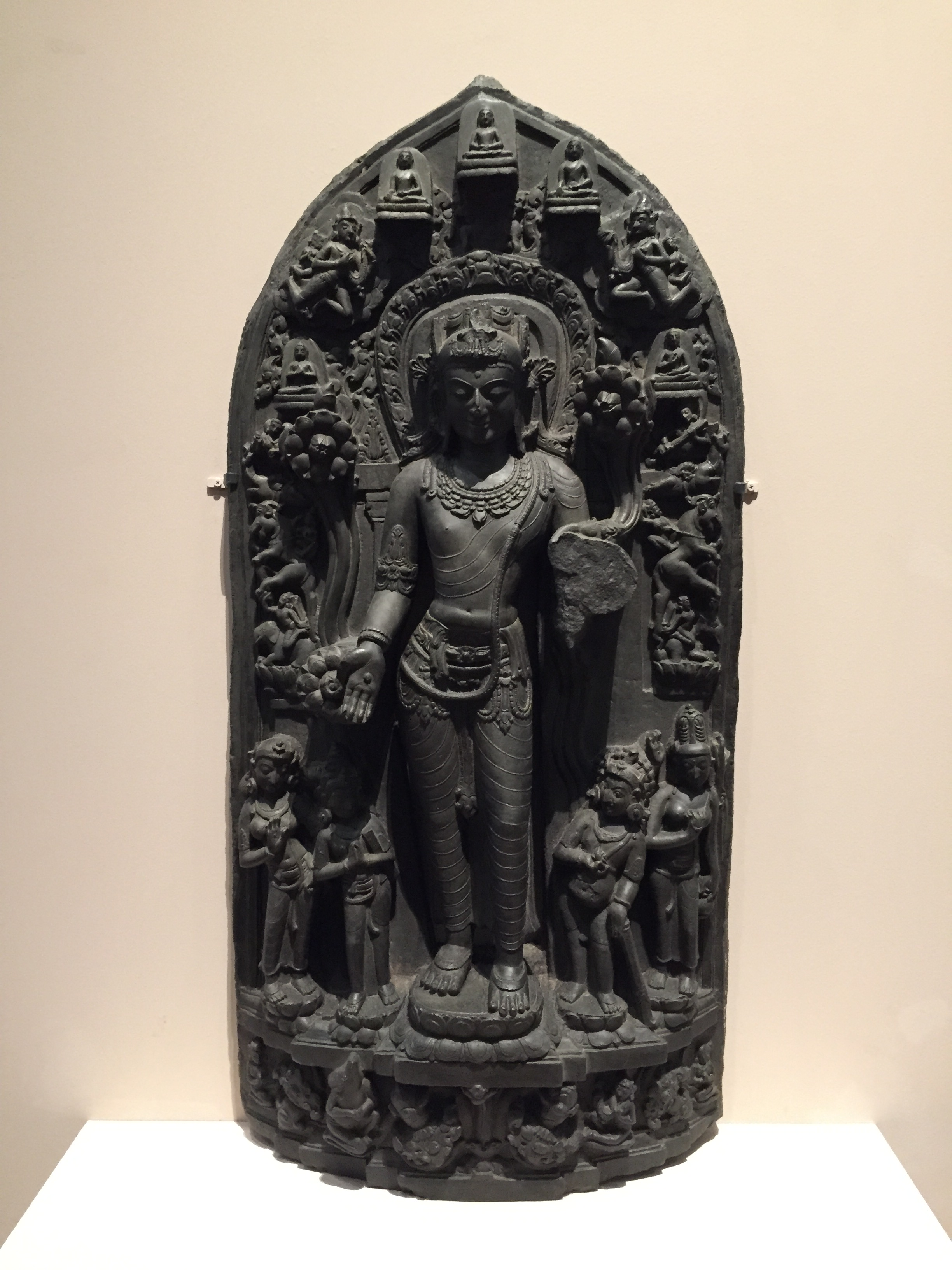 A basalt sculpture of Avalokiteśvara known as the Khasarpana Lokeshvara in the Pala style from Chowrapara Rajshahi. On the bodhisattva's left are Tara and Sudhanakumâra, on the right are Hayagriva and Bhrikuti, and above are five celestial Buddhas on lotus thrones with Amitābha at the top. The sculpture, from the collection of the Indian Museum in Kolkata, India, was on display in an exhibition entitled Treasures from Asia's Oldest Museum: Buddhist Art from the Indian Museum, Kolkata at the Asian Civilisations Museum, Singapore, from 16 June to 16 August 2015.